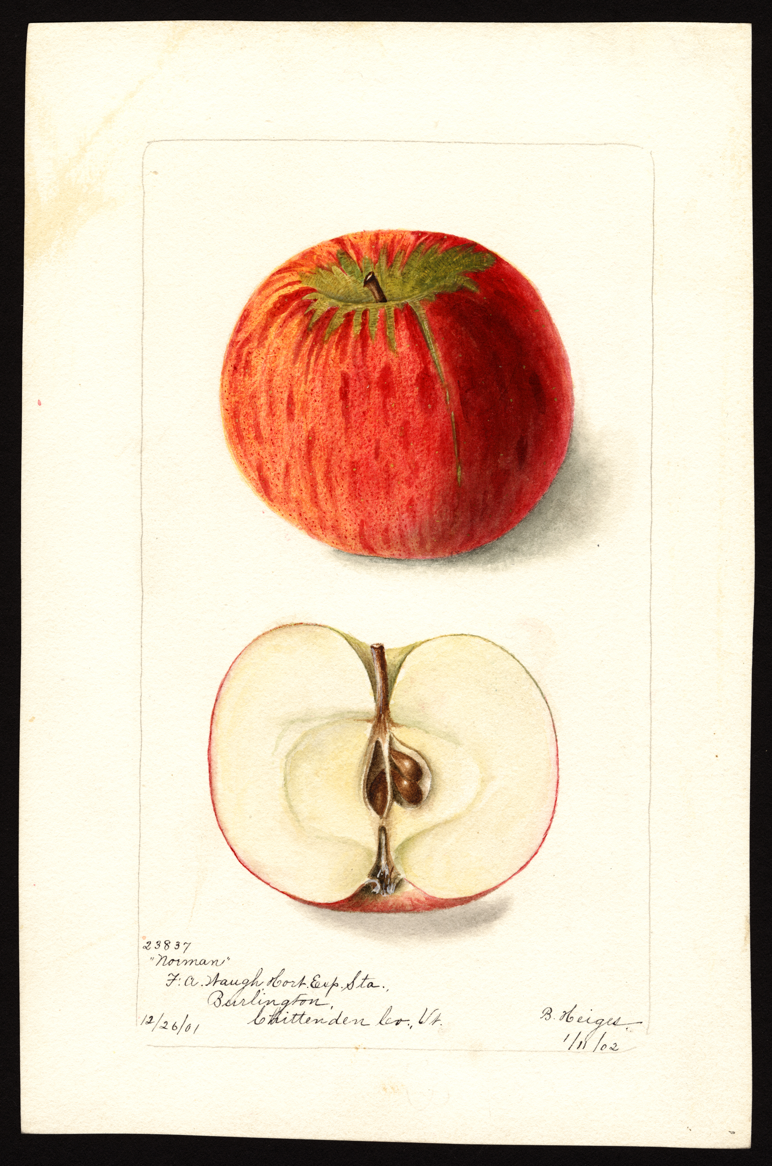 Image of the Norman variety of apples (scientific name: Malus domestica), with this specimen originating in Burlington, Chittenden County, Vermont, United States. Source: U.S. Department of Agriculture Pomological Watercolor Collection. Rare and Special Collections, National Agricultural Library, Beltsville, MD 20705.